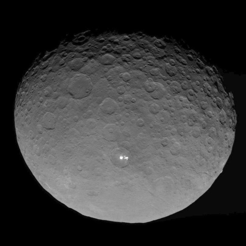 PIA19546: Dawn RC3 Image 12 This image of Ceres is part of a sequence taken by NASA's Dawn spacecraft on May 4, 2015, from a distance of 8,400 miles (13,600 kilometers). Dawn's mission is managed by JPL for NASA's Science Mission Directorate in Washington. Dawn is a project of the directorate's Discovery Program, managed by NASA's Marshall Space Flight Center in Huntsville, Alabama. UCLA is responsible for overall Dawn mission science. Orbital ATK, Inc., in Dulles, Virginia, designed and built the spacecraft. The German Aerospace Center, the Max Planck Institute for Solar System Research, the Italian Space Agency and the Italian National Astrophysical Institute are international partners on the mission team. For a complete list of acknowledgements, visit